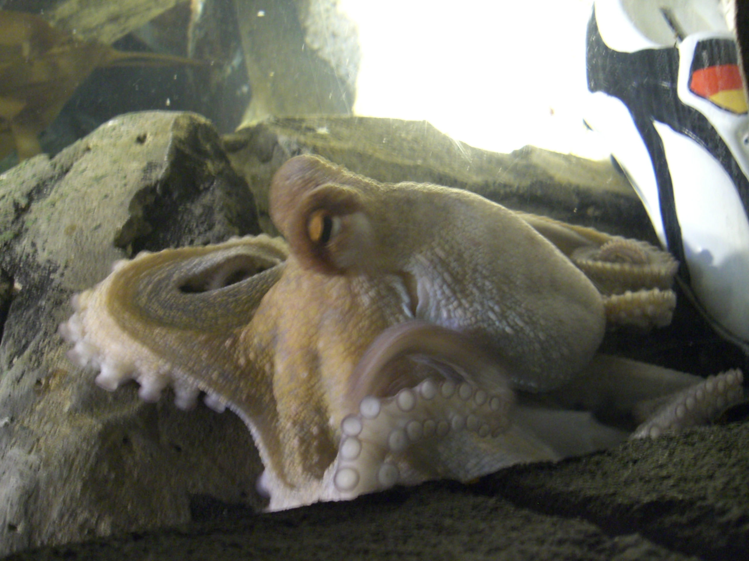 Animal oracle Paul the Octopus with a shoe.